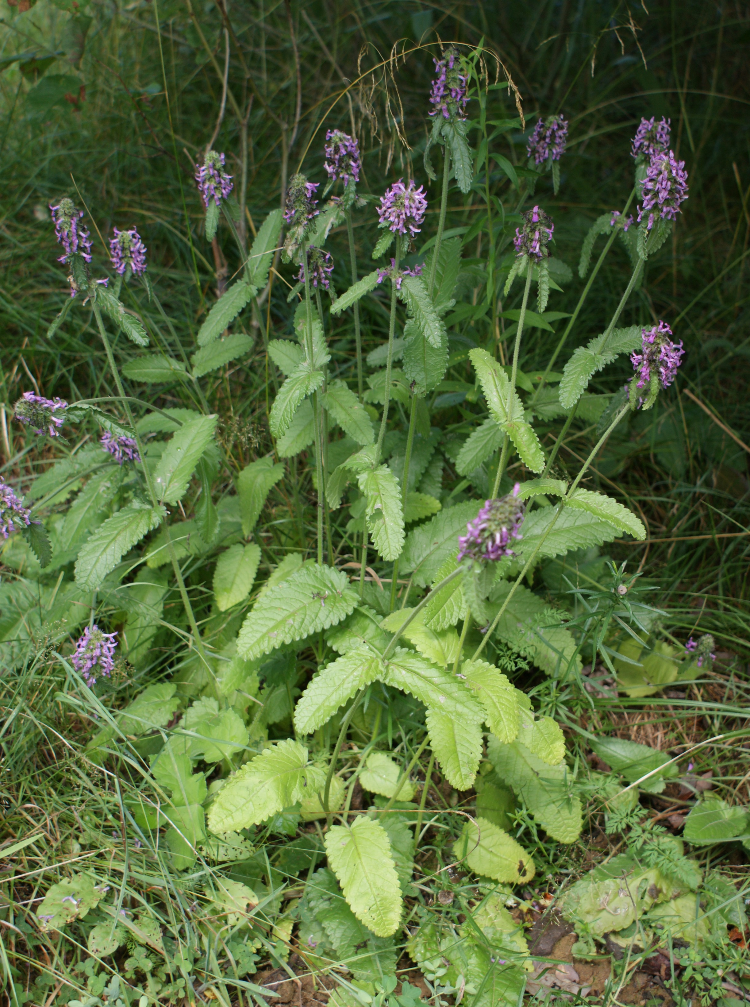 Betonica officinalis (stachys officinalis), habitat. Szczecin (NW Poland)